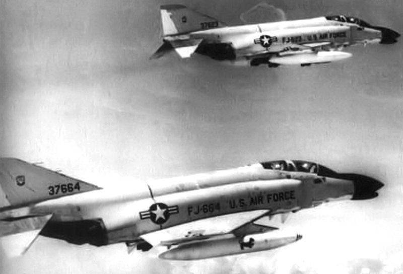 390th Tactical Fighter Squadron F-4Cs flying over Vietnam, late 1965. Both aircraft were later repainted in camouflage. McDonnell F-4C-20-MC Phantom 63-7623 modified as EF-4C Wild Weasel flak suppression aircraft. McDonnell F-4C-20-MC Phantom 63-7664 w/o May 30, 1966 with 555th TFS